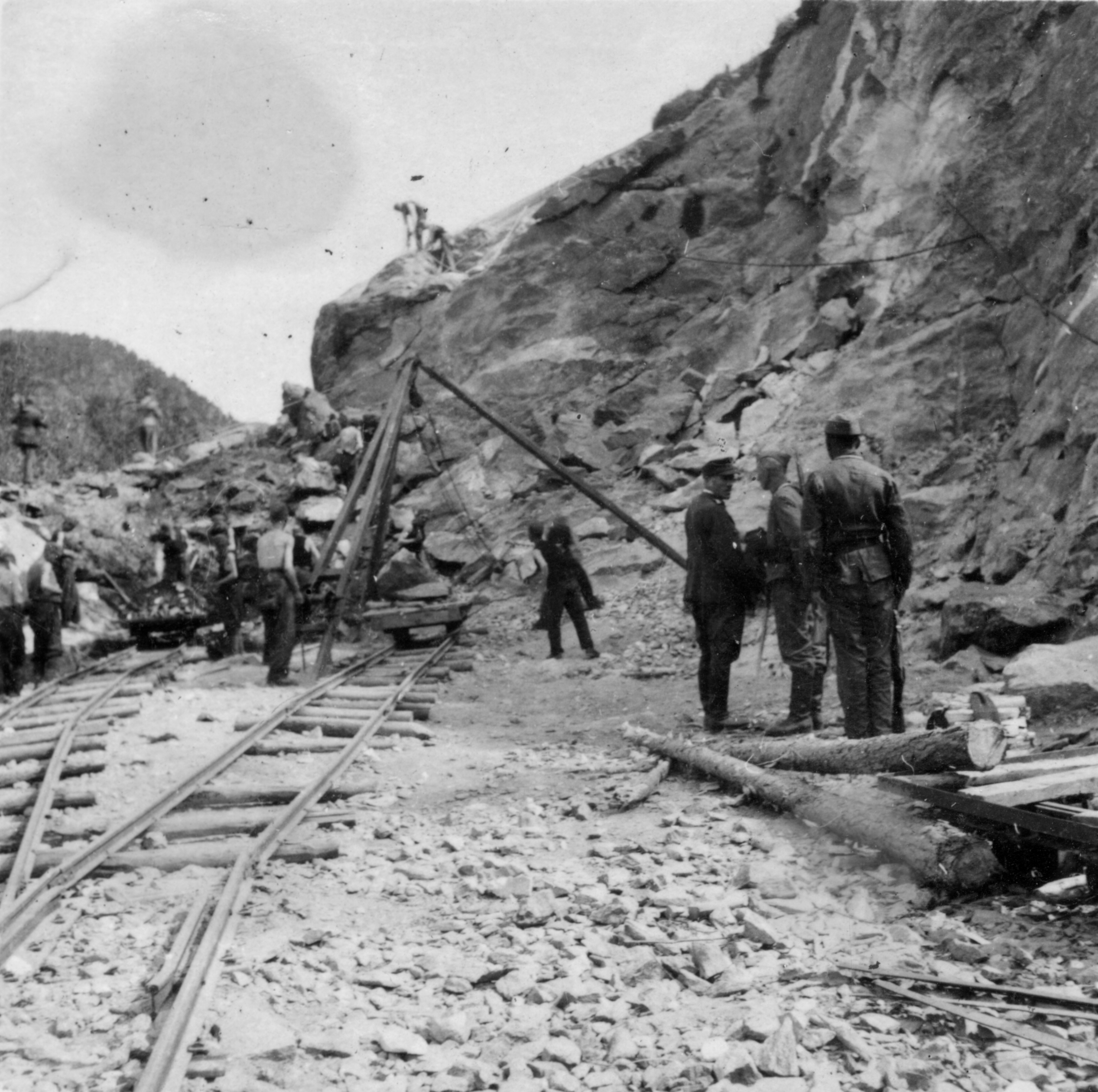 Construction Work done by prisoners of war in connection with Blood Road WW2. Saltdal, Norway